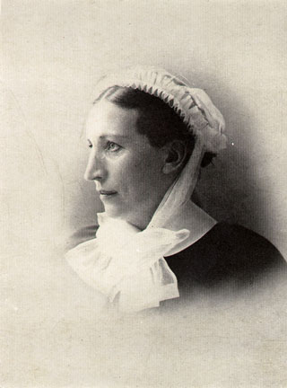 Portrait of Elizabeth Fedde (1850-1921)